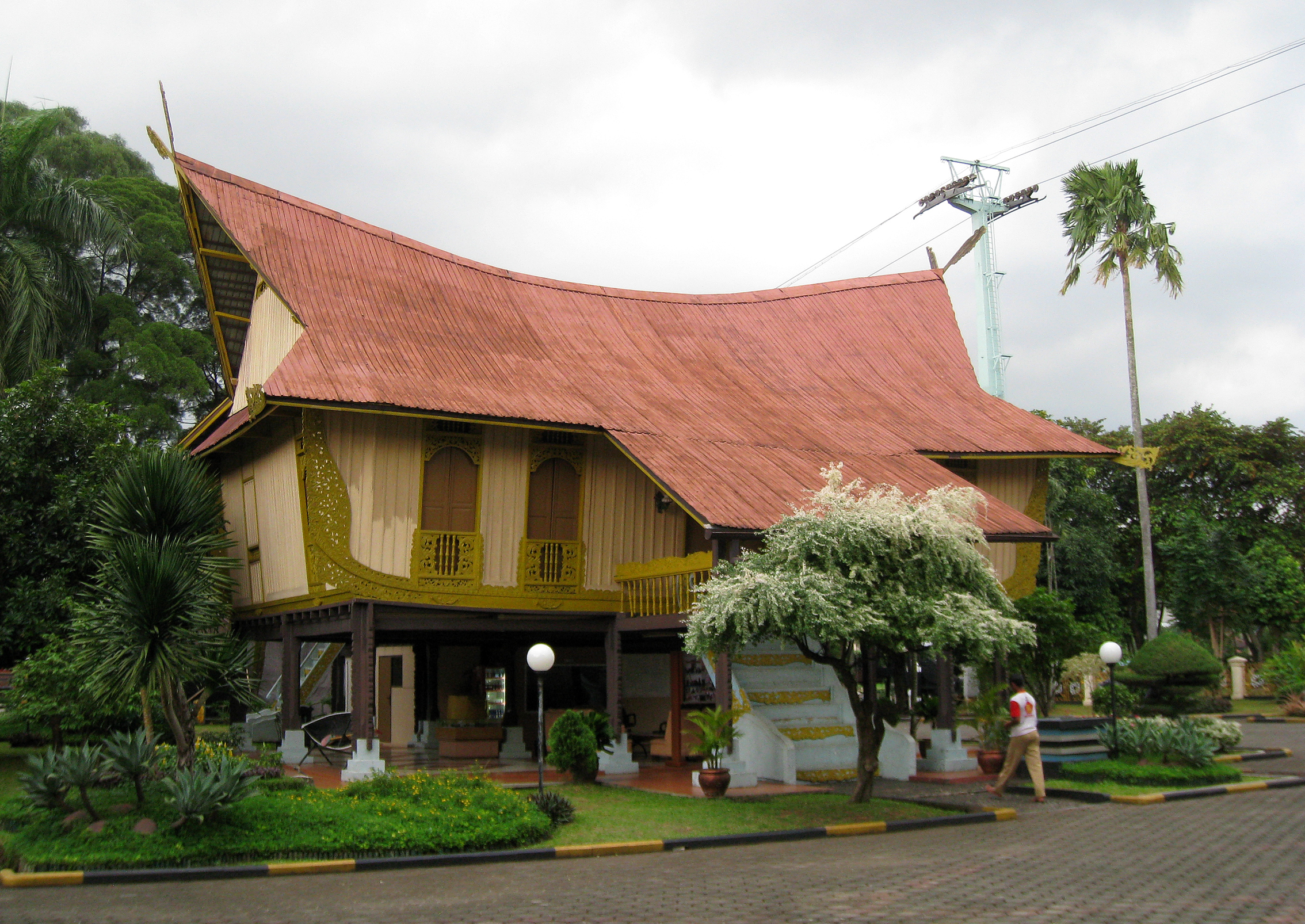 Rumah Lontik with curved roof and boat-like structure. A Malay traditional house of Kampar Regency, Riau. The replica is located at Riau Pavilion, Taman Mini Indonesia Indah, Jakarta.